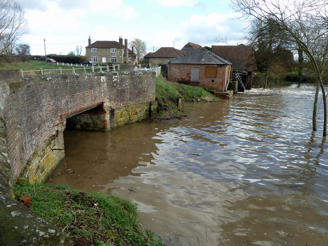 River Rother at Coultershaw: The near bridge is that for the lock cut of the derelict Rother Navigation, but it has been lowered. Immediately above the bridge, out of sight, is what is left of the lock. The brick building is the engine house that formerly housed engines to power the mill here at times of low water. Beyond this are sluices and chambers for the former waterwheels that powered the mill, which is now demolished. The building dimly visible beyond the sluices houses a water powered water pump, formerly used to supply Petworth with water. The water level seen here is somewhat higher than usual.